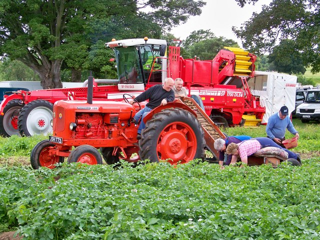 Border Union Agricultural Show 2009 - Potato Picker Demonstration. A demonstration of a late 1950s Shanks 'Featherbed' Potato Picker in action, attached to a Nuffield 460 tractor. In the background is a modern self-propelled Grimme SF1700 DLS potato harvester.